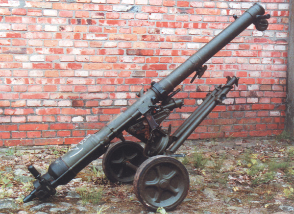 82 mm B-10 recoilless rifle (pl. 82 mm działo bezodrzutowe B-10)